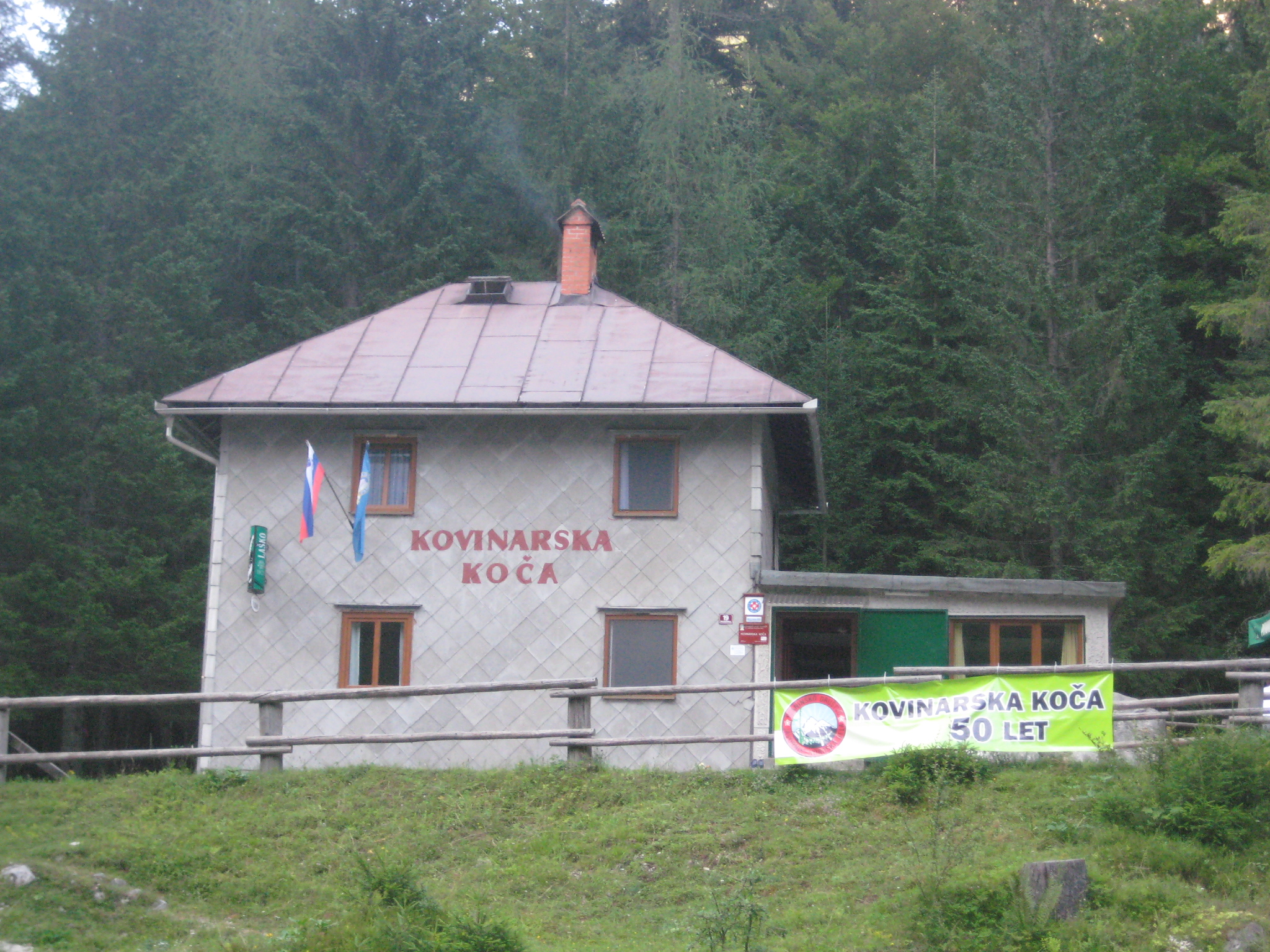 Kovinarska koča, Alpine hut in Krma, Julian Alps, Slovenia